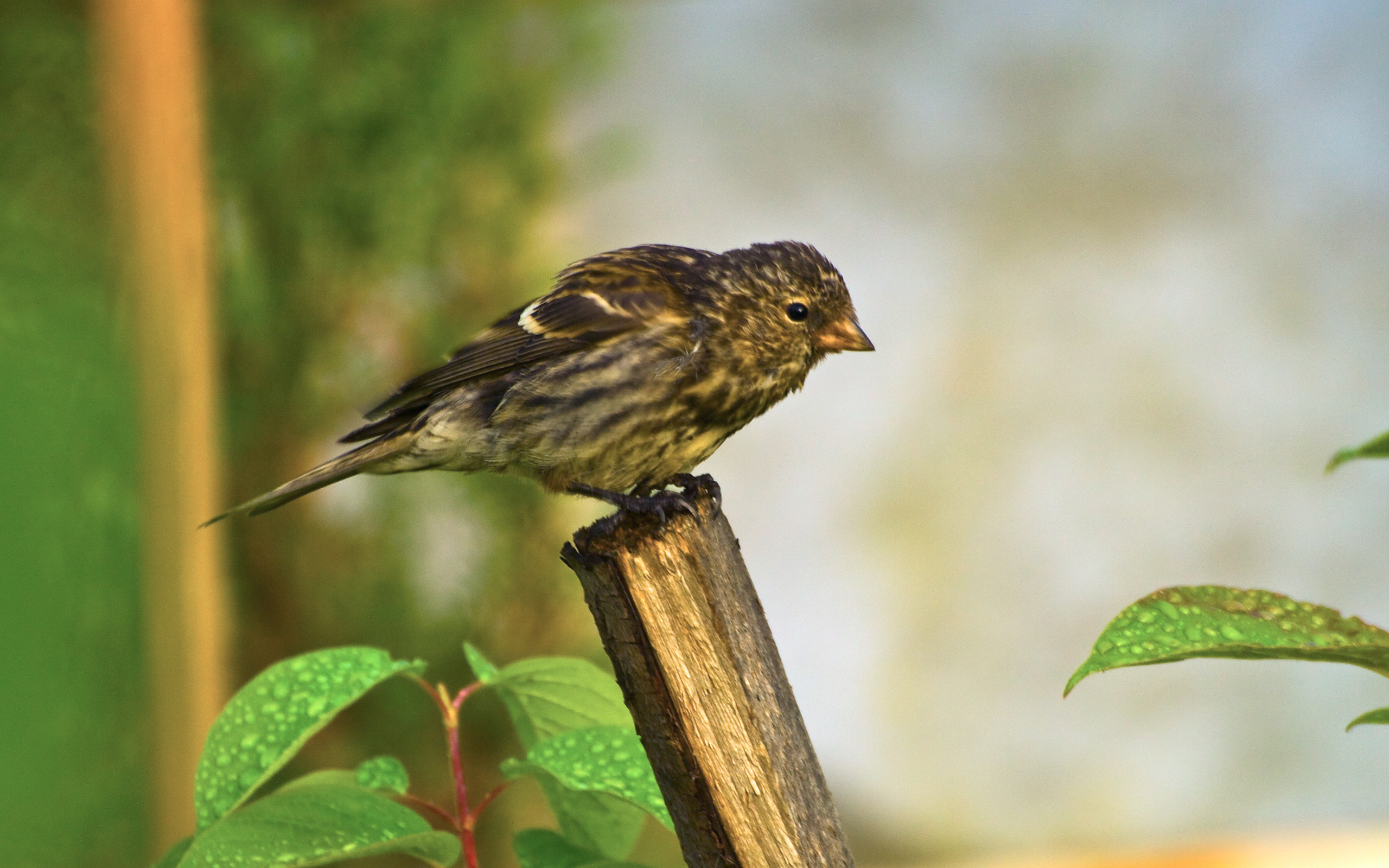 Auðnutittlingur (Carduelis flammea)